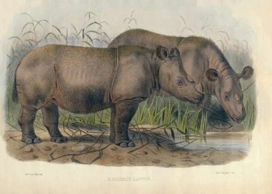 Images of the female Sumatran rhino 'Begum' shown in London Zoo from 15 February 1872 to 31 August 1900. She was the type of Rhinoceros lasiotis. From Sclater 1876, pl. 98.